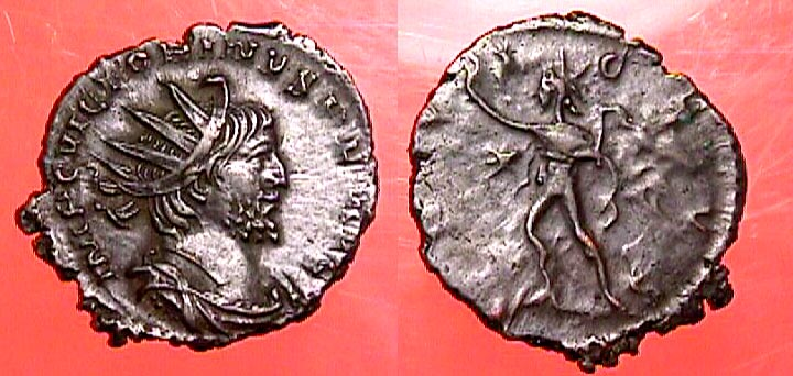 Victorinus AE Antoninianus. IMP C VICTORINVS P F AVG, radiate, draped & cuirassed bust right INVICTVS, Sol advancing left with whip. RIC 114, Cohen 49. Through Wildwinds. 271 antoninianus Victorinus